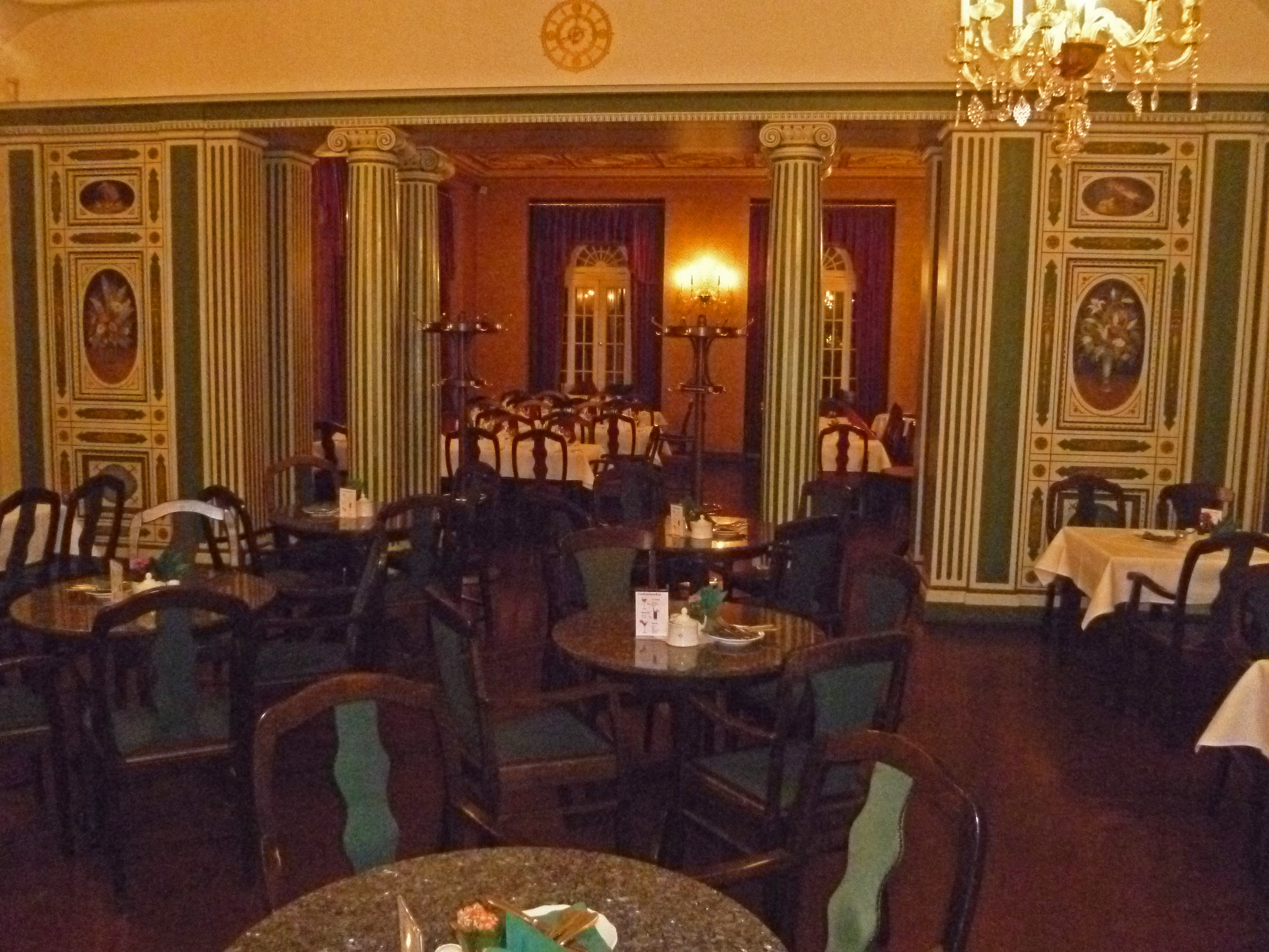 View inside the restaurant of the Italienisches Dörfchen, Dresden, Germany